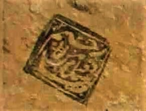 Seal or Stamp of Mirza Mohammad Rahim 3rd- Sheikholeslam of Esfahan (? - 1889 /? -1306 A.H.) Malek National Library and Museum Institutions Reference Number:821/1